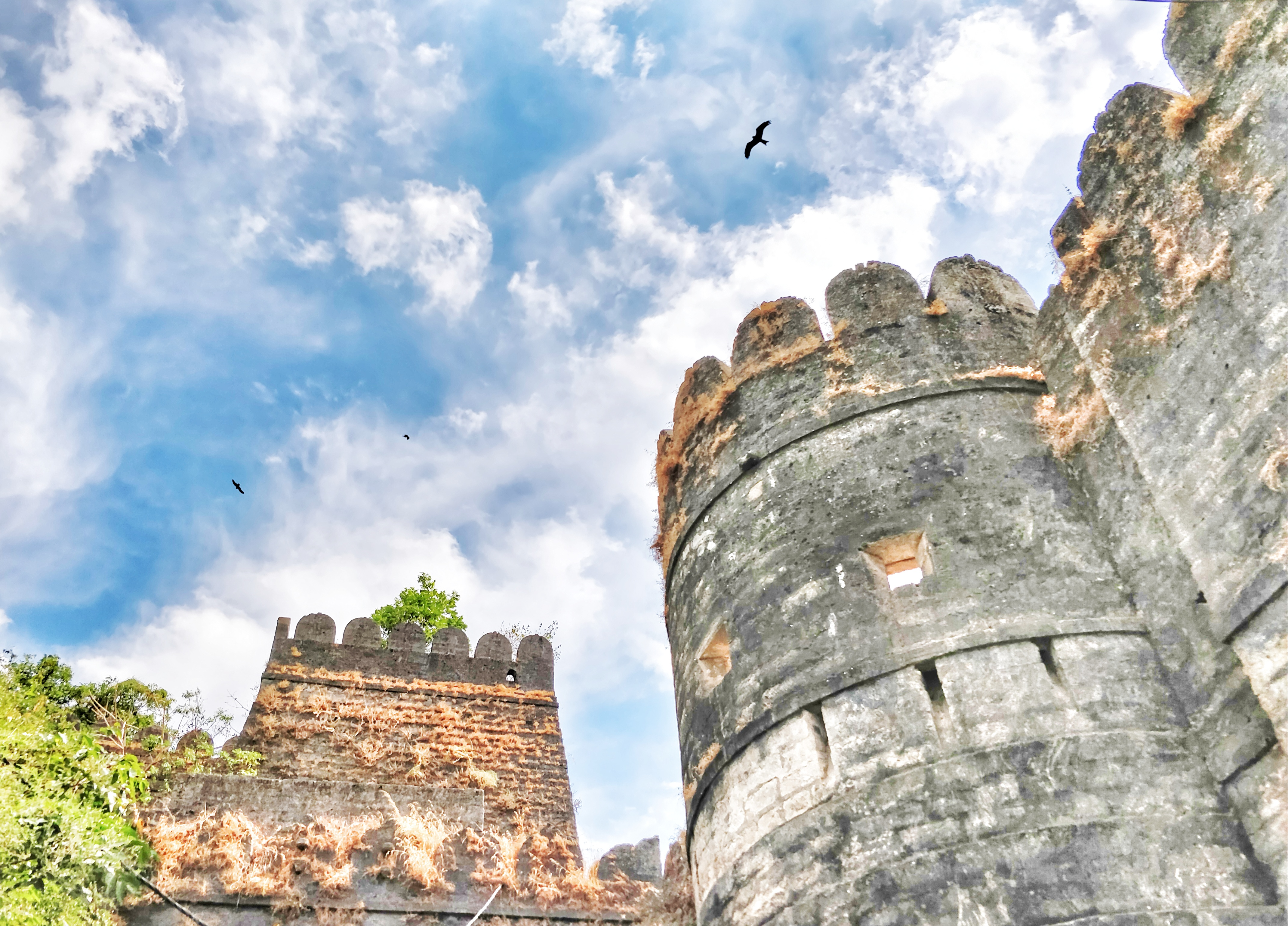 Uparkot